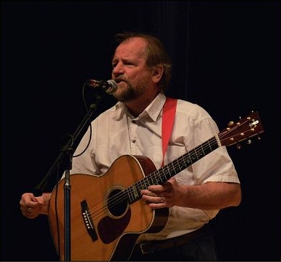 This digital photo of Ed Miller was taken July 24, 2009 in Cole Memorial Auditorium on the Edinboro University campus in Edinboro, Pennsylvania. Ed Miller is well known for his outstanding voice and acoustic guitar playing.